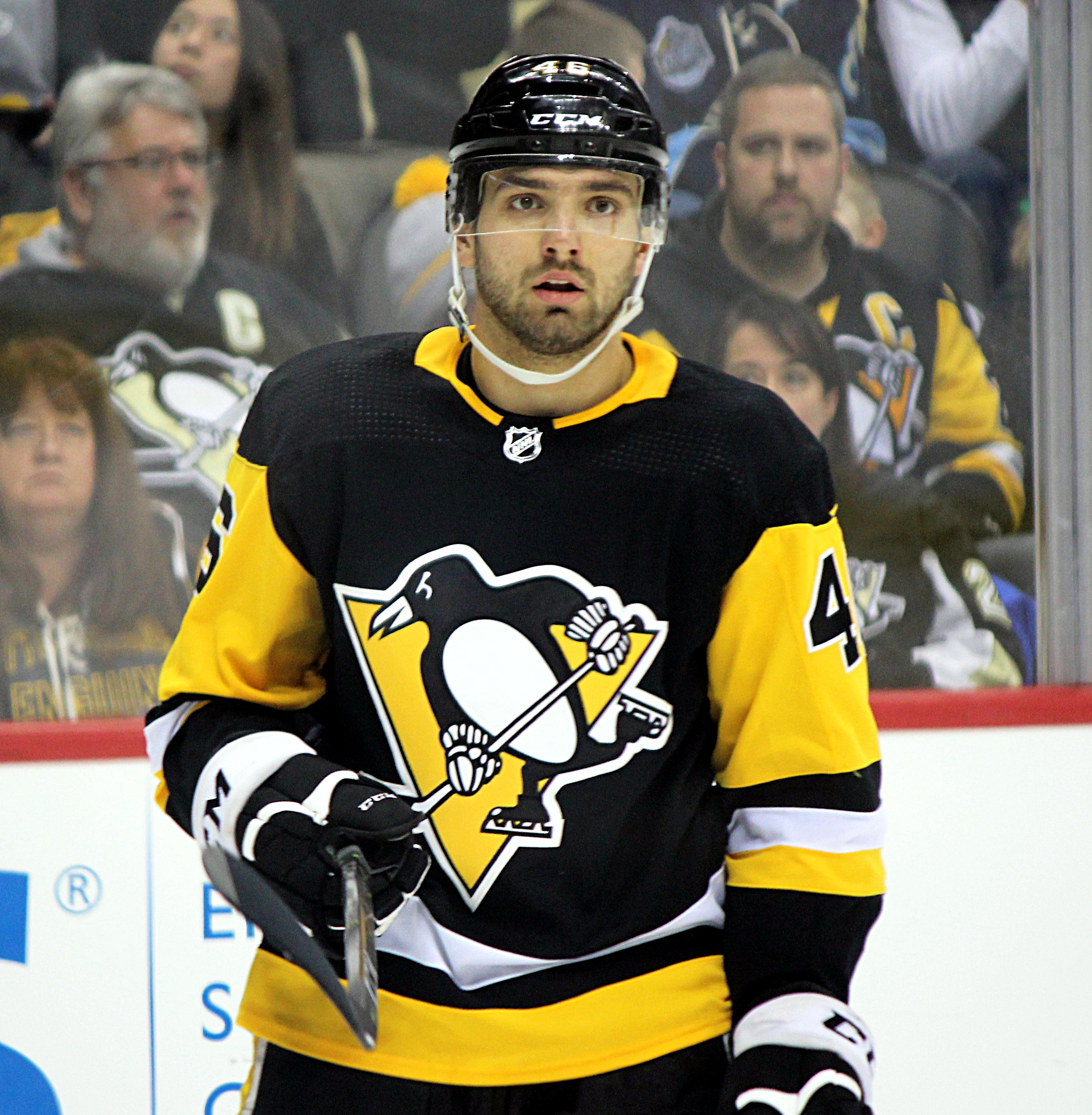 Pittsburgh Penguins forward Zach Aston-Reese during a game against the Vegas Golden Knights, February 6, 2018, at PPG Paints Arena in Pittsburgh, PA.